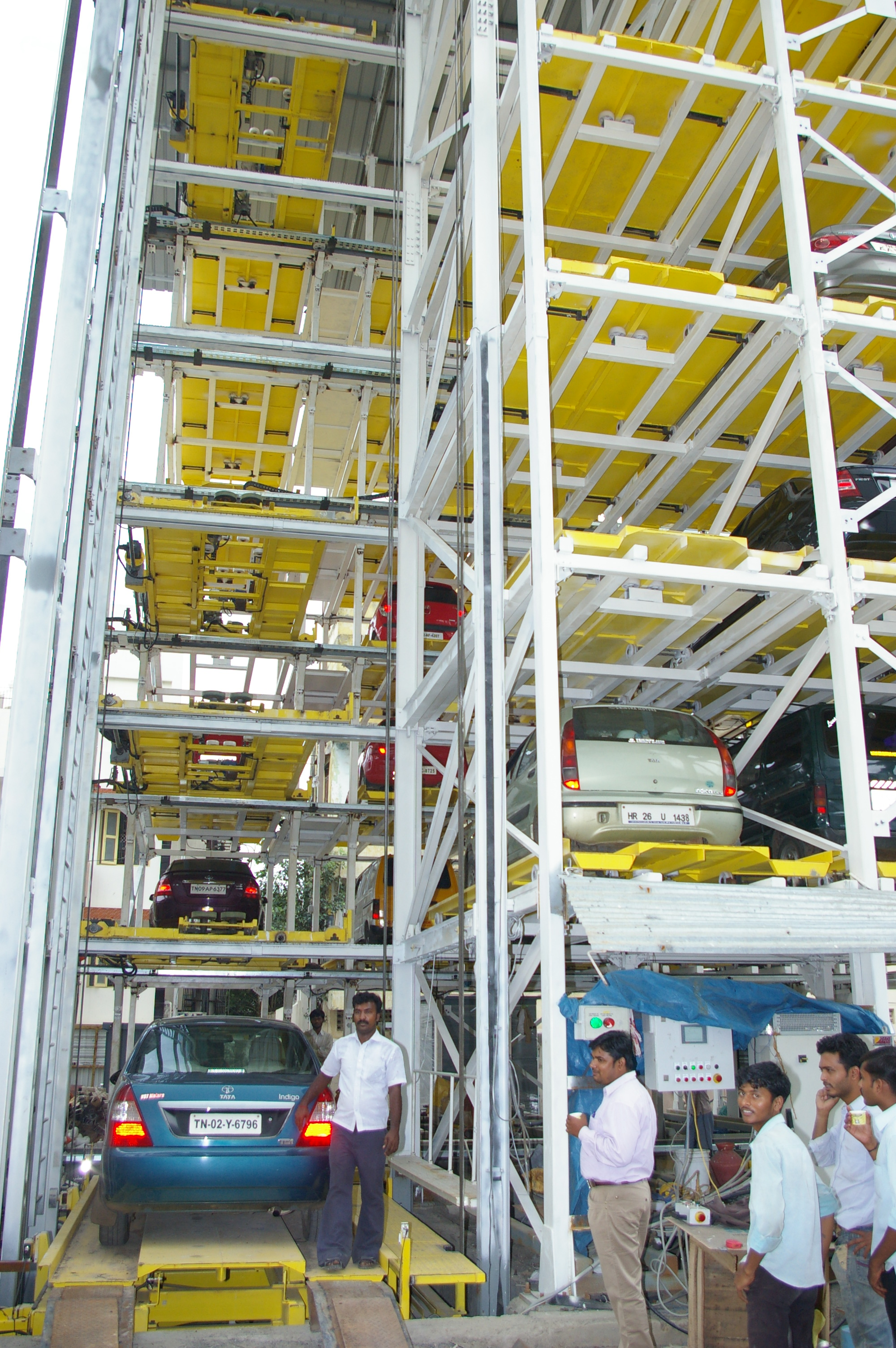 Saravana Super Stores Automated Car Park,Purasaivakkam.